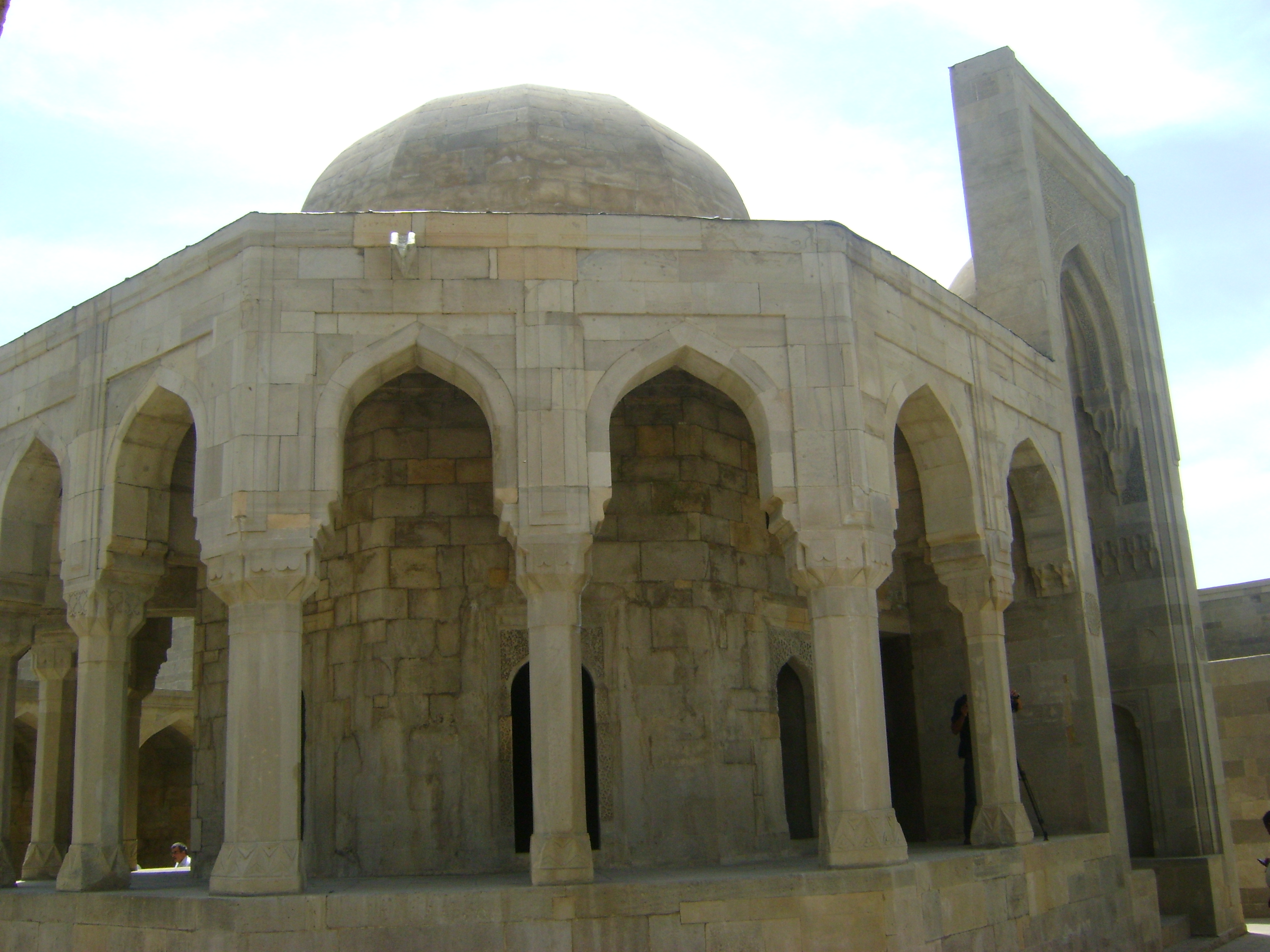 shirvanshakh_palace_old_city(baku)_azerbaijan_8-18centuries - divankhana-khan's parliament-council